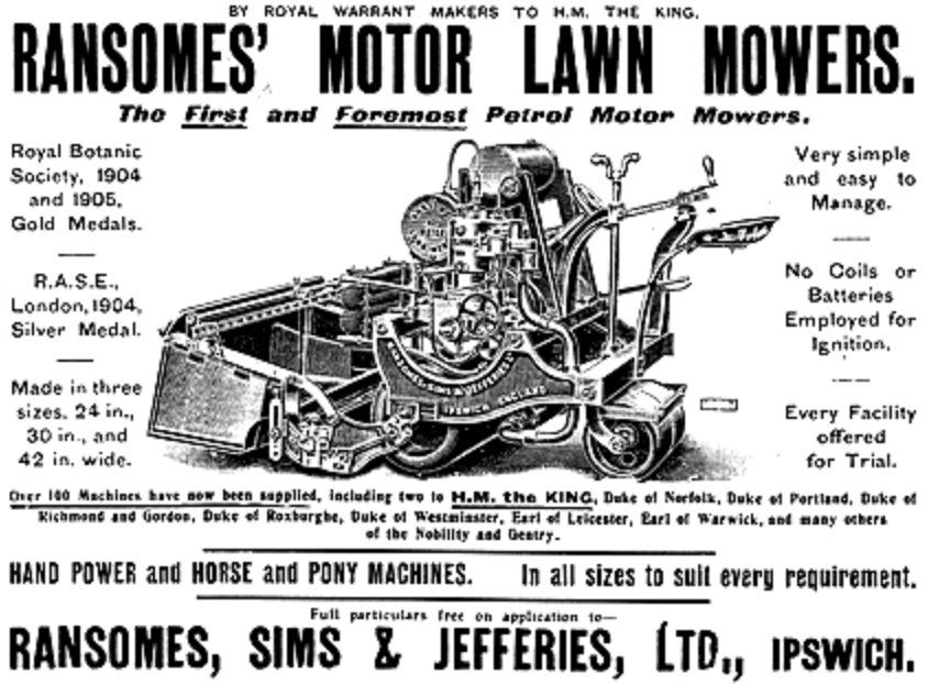 Engraving of lawn mower made by Ransomes, Sims & Jefferies of Ipswich